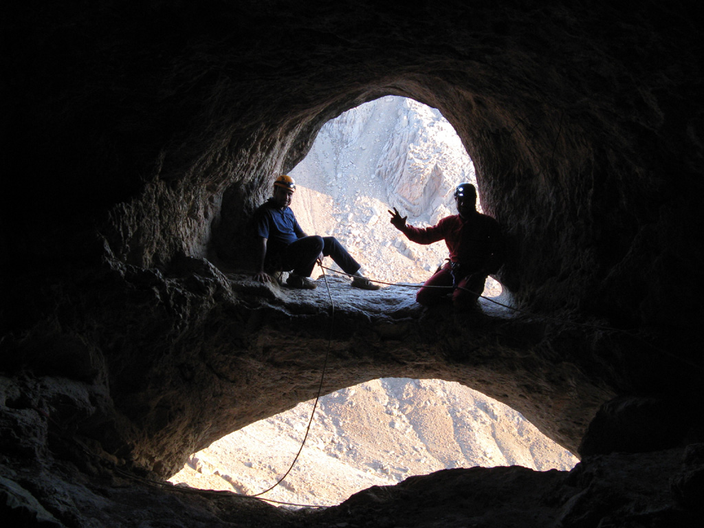 Sir cave in Bardaskan county, Razavi Khorasan province.